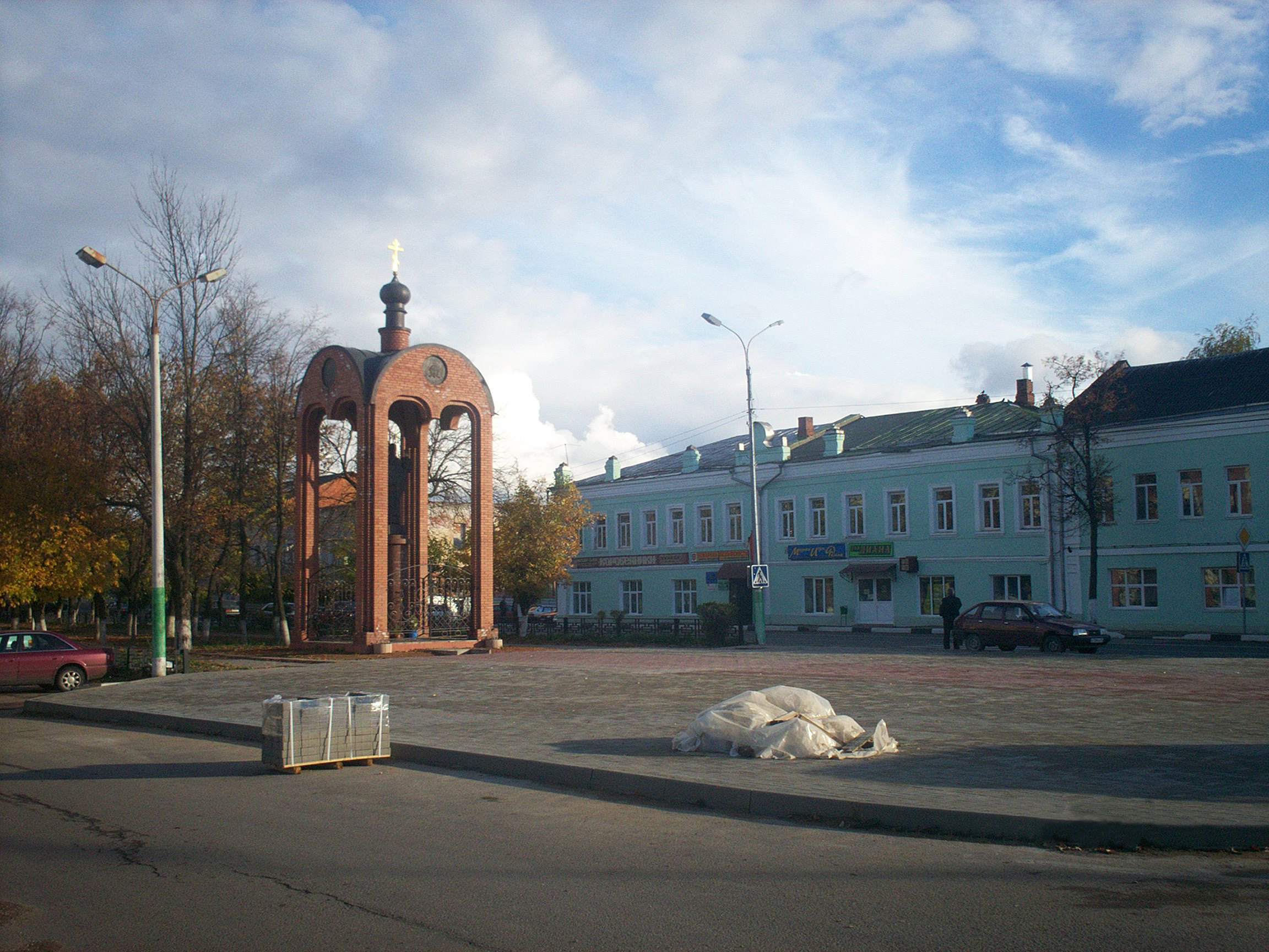 Mozhaysk